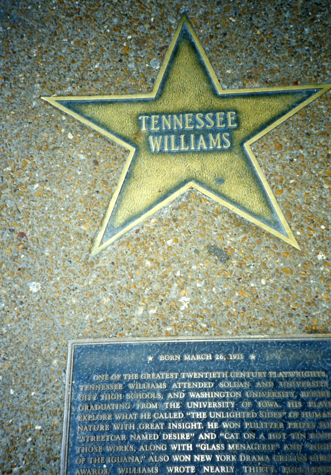 Tennessee Wiliams star on the St.Louis Walk of Fame, 6504 Delmar Boulevard, St.Louis, MO